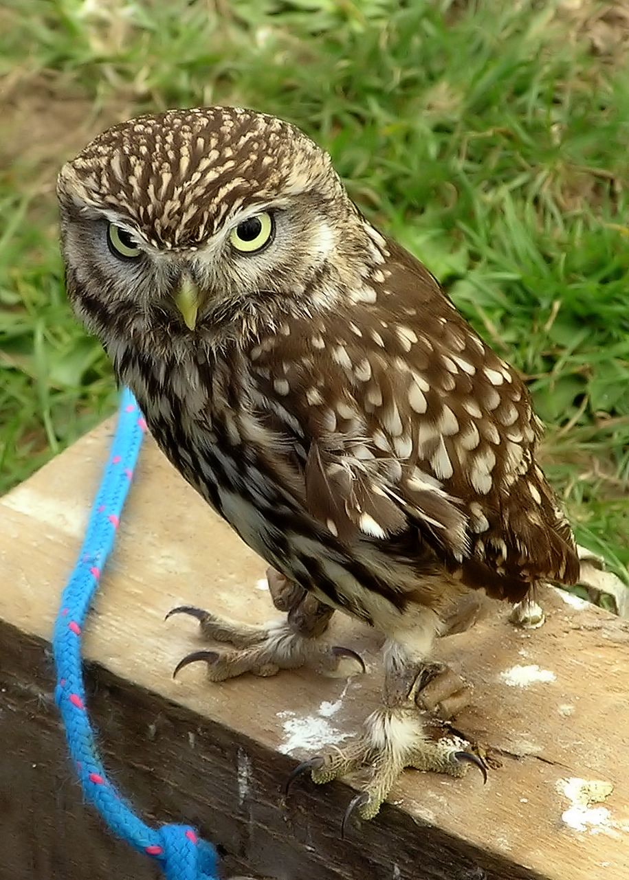 Little Owl Athene noctua at Avon Valley Country Park, Bristol, England.